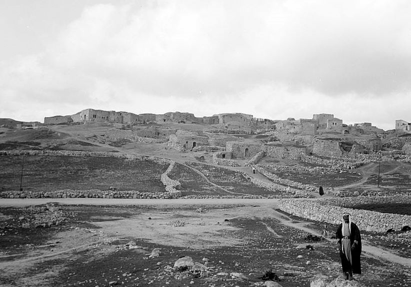 Al Dhahiriya in1940